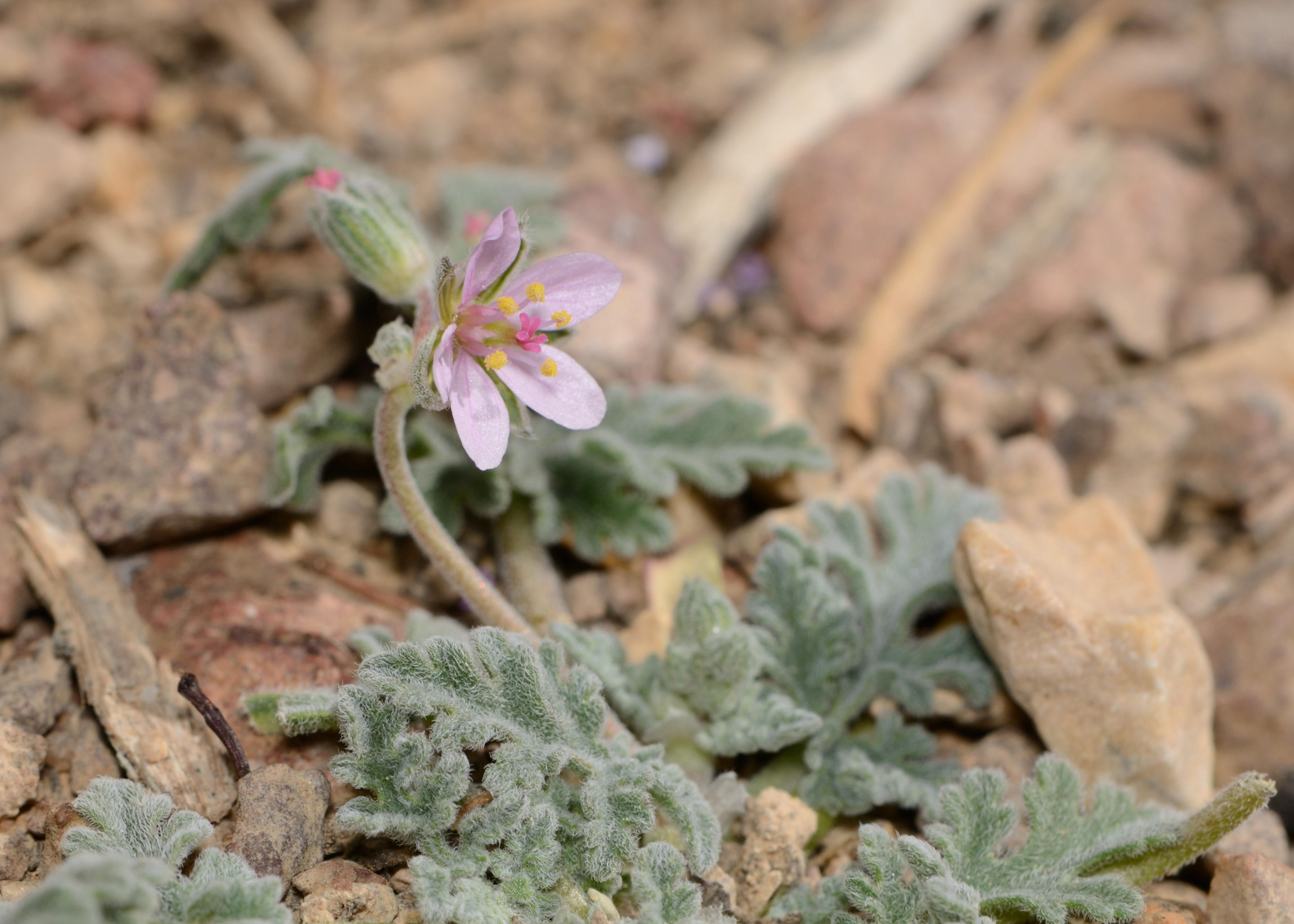 Erodium laciniatum subsp. pulverulentum (Boiss.) Batt., Eilat Mountains, Israel, March 20, 2013.